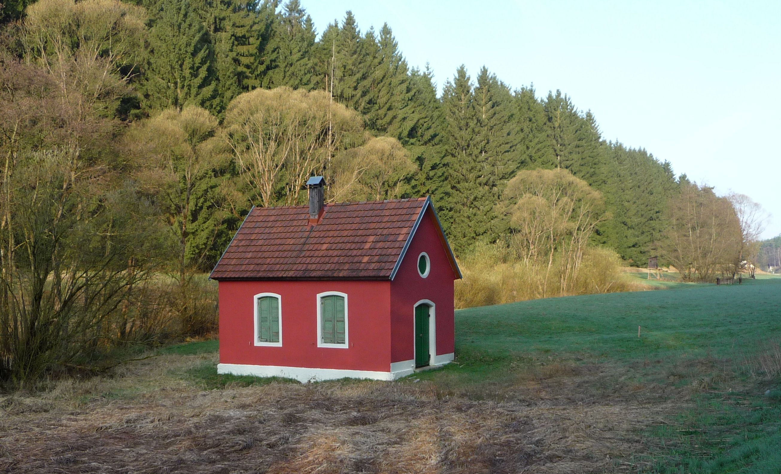 Steinfeld (Stadelhofen), Landkreis Bamberg, Germany